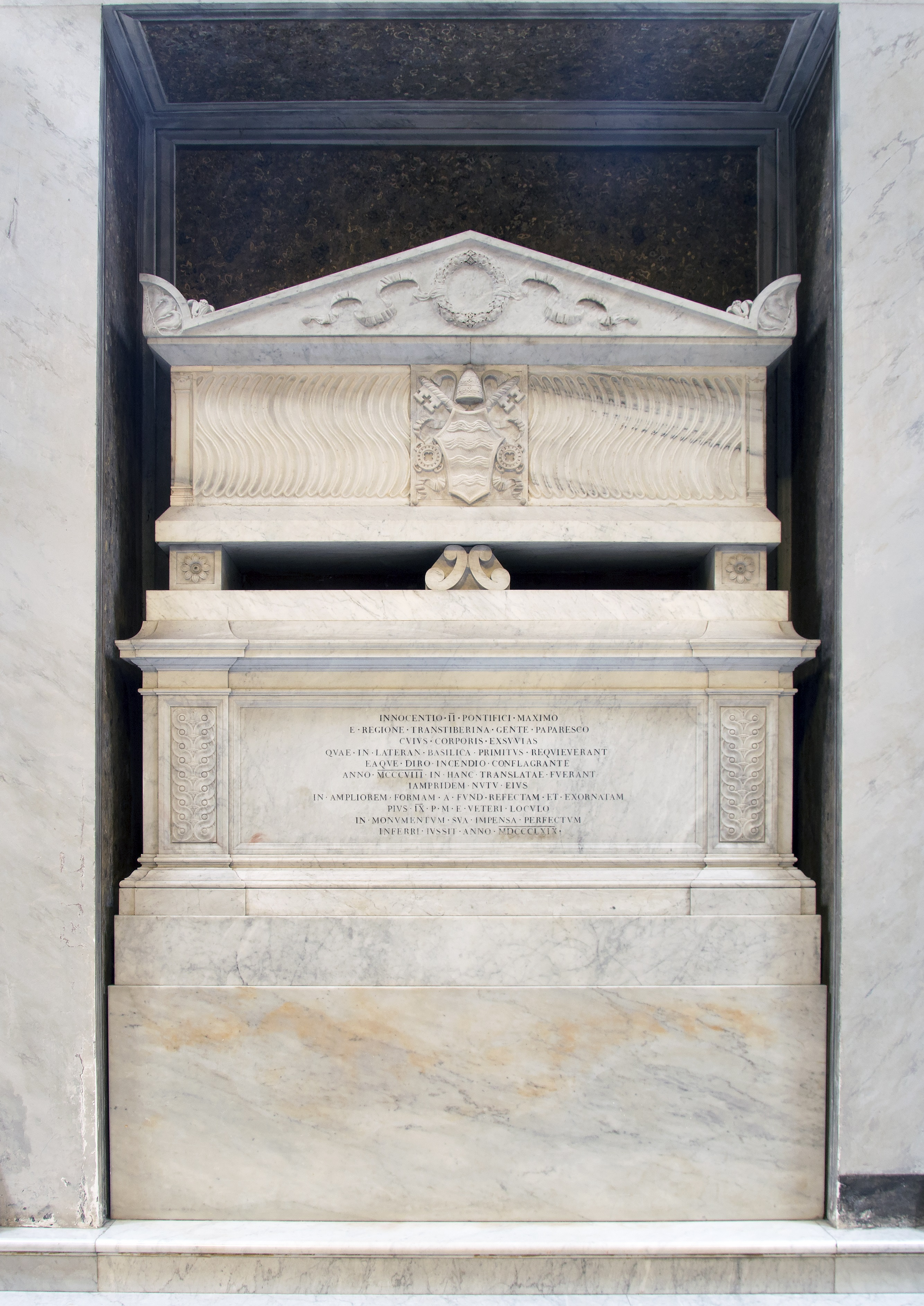 Tomb of Innocentius II in Santa Maria in Trastevere (Rome)